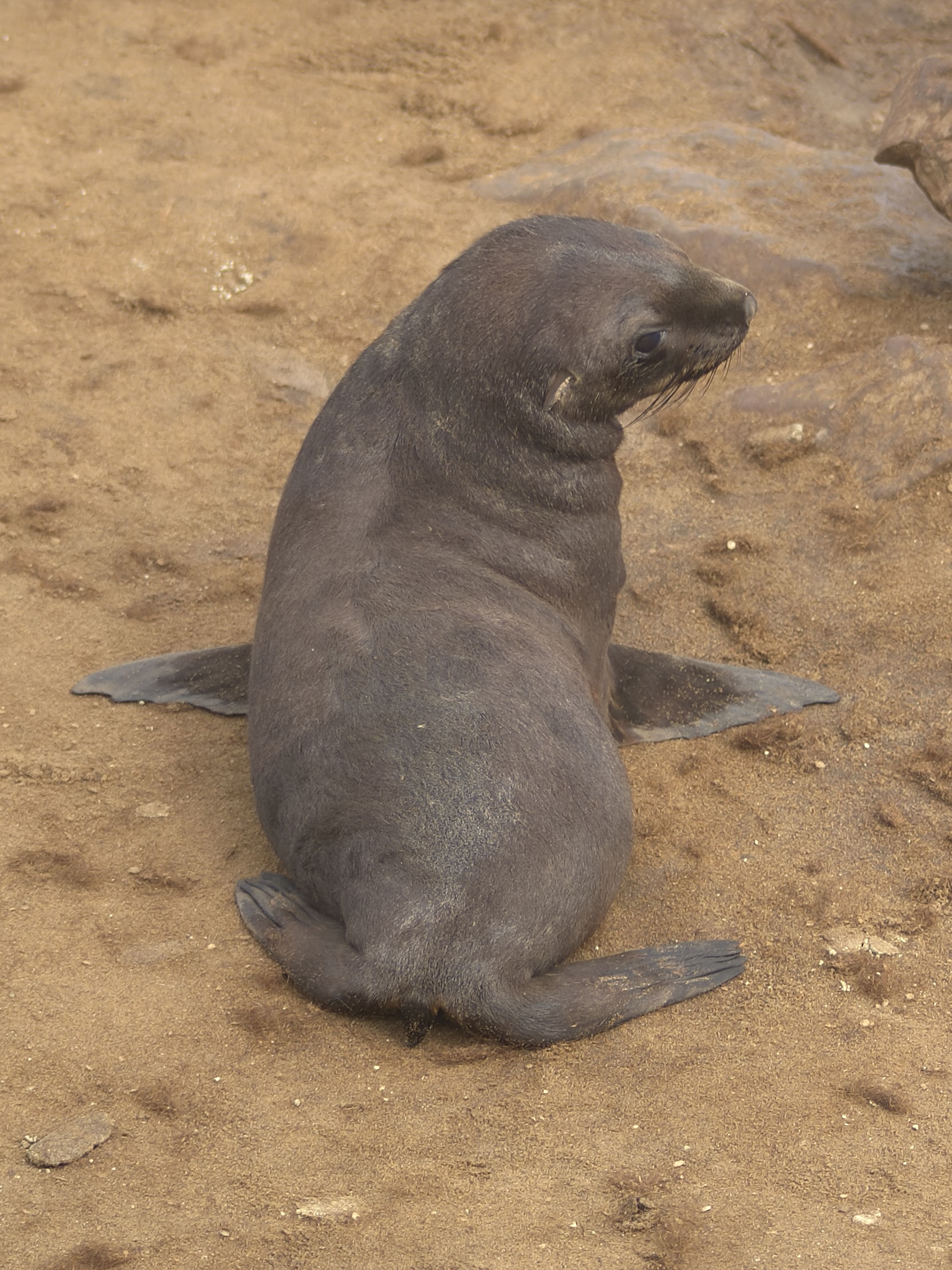 A Cape Fur Seal pup at Cape Cross on the Skeleton Coast, Namibia